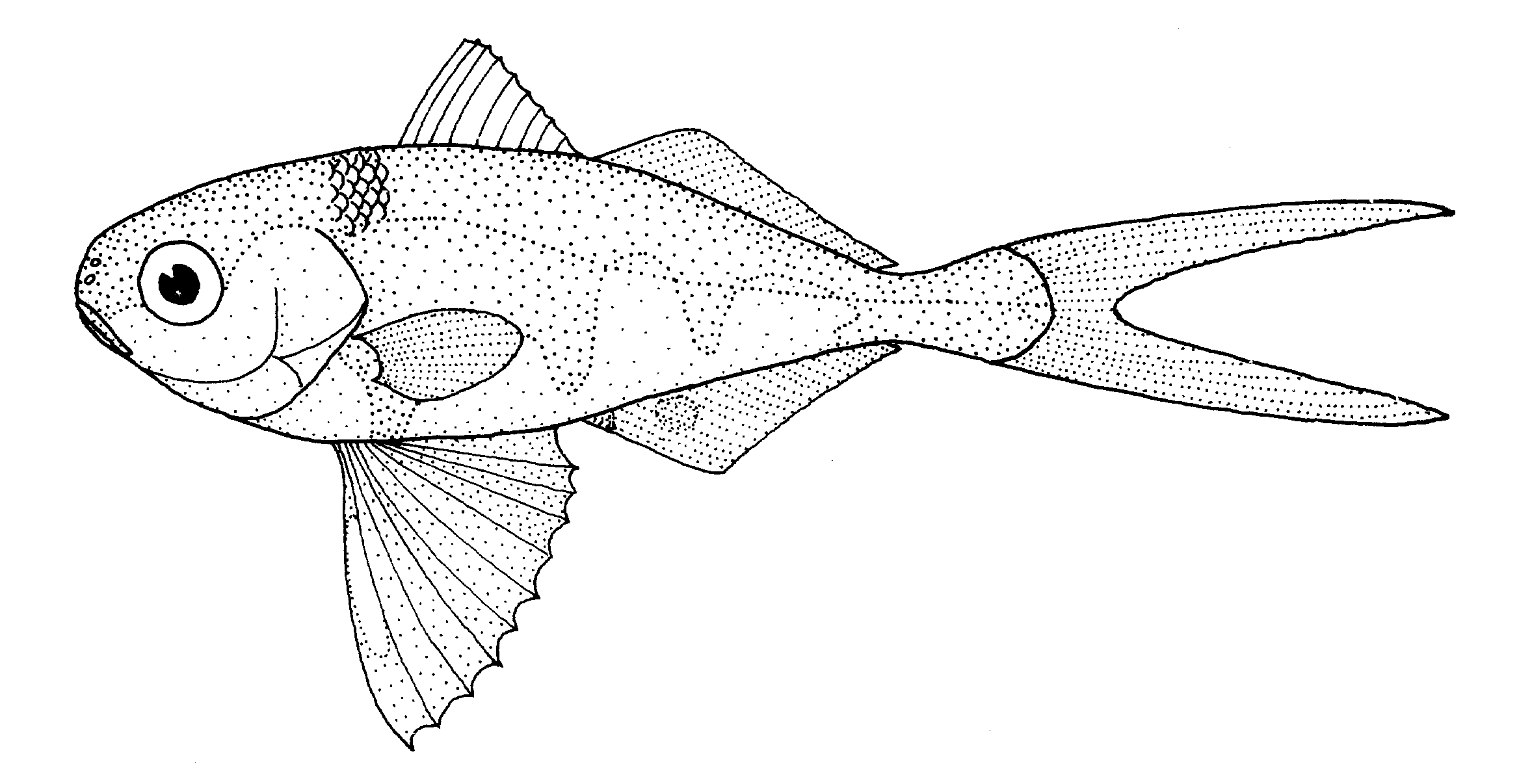 Nomeus gronovii (Man-of-war fish)